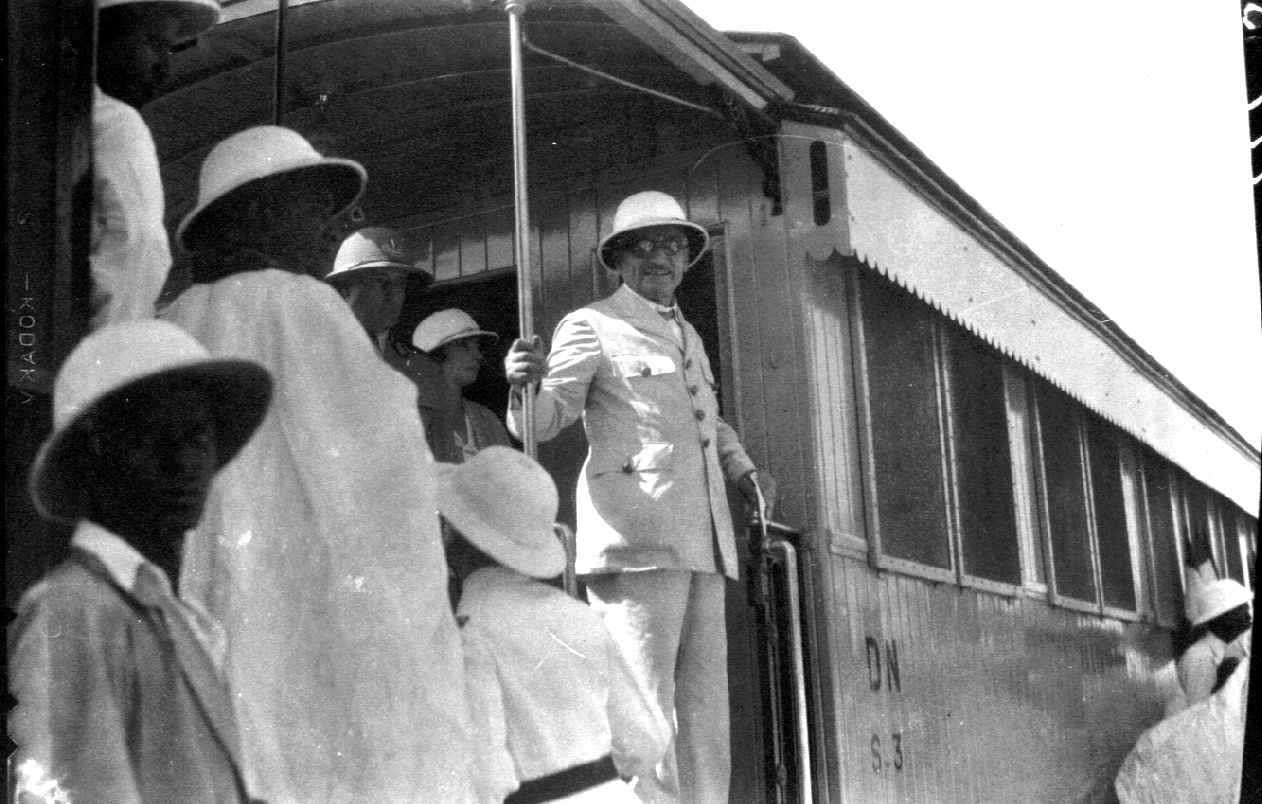 French Minister for Colonies Marius Moutet (Leon Blum Cabinet) in Dakar, 1937